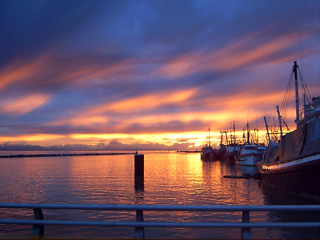 dusk in Steveston, British Columbia